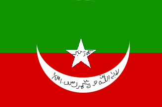 Green-Red Bicolour Flag Crescent In Arabic. See :es:Wikipedia:Autorizaciones/Banderas de Jaume Ollé